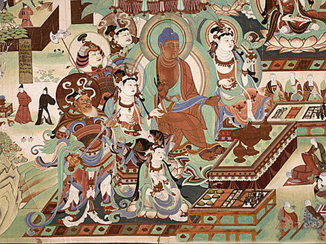 Cave 25 is considered to be the same as The treaty temple of the Turqoise grove, described in a Tibetan document from the 9th Century, The prayers of Dega Yutsel